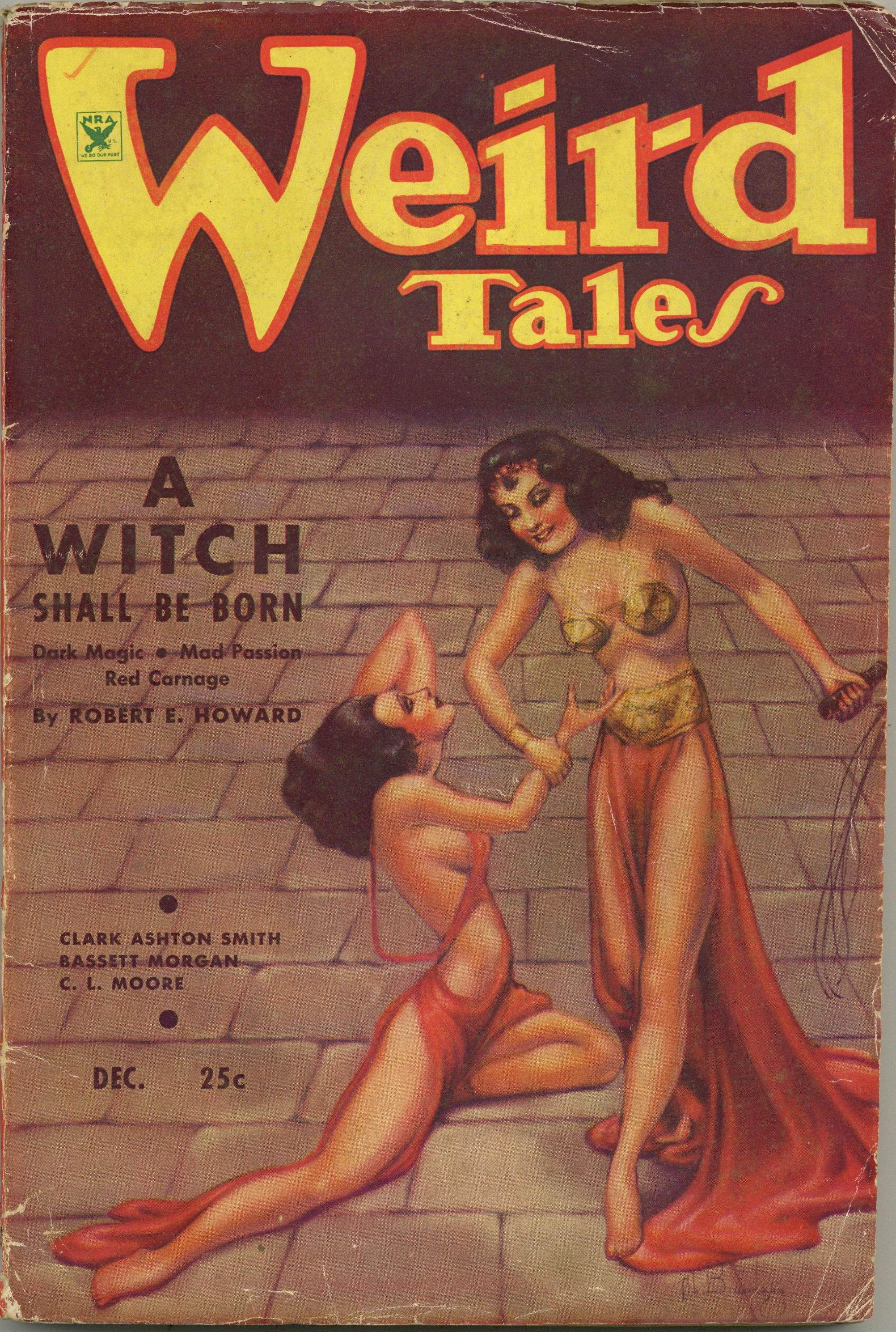 Cover of the pulp magazine Weird Tales (December 1934, vol. 24, no. 6) featuring A Witch Shall be Born by Robert E. Howard. Cover by Margaret Brundage.